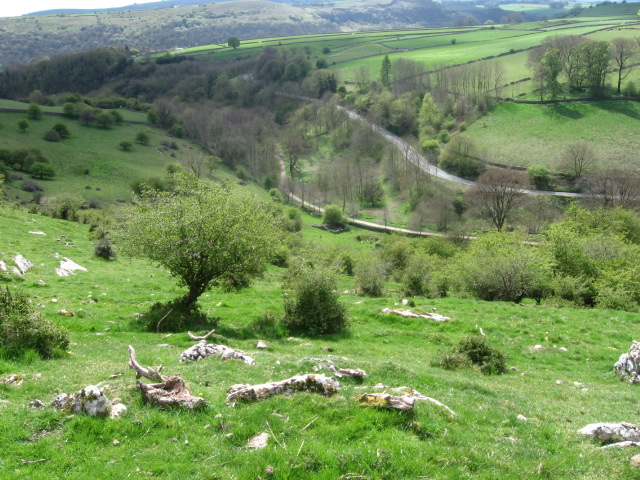 Hillside of Tideswell Dale